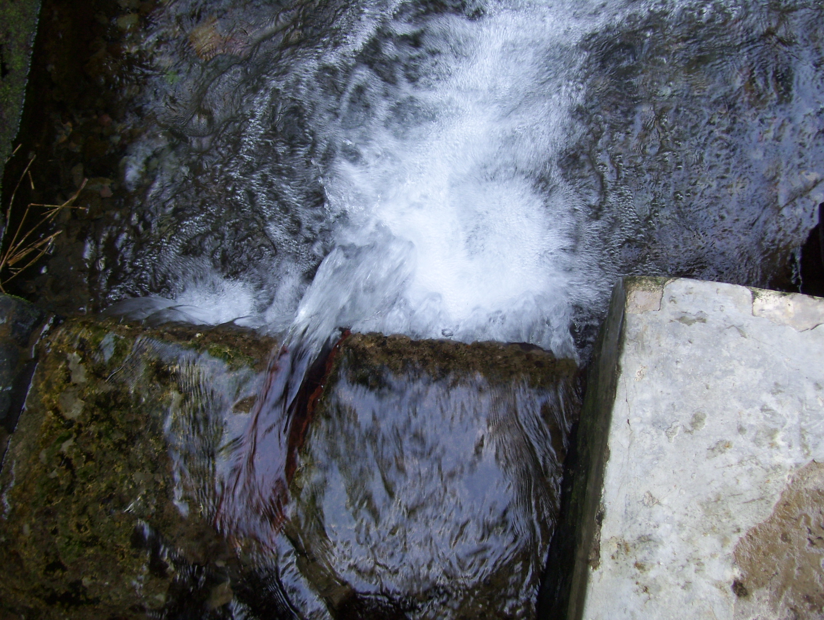 Spring water source